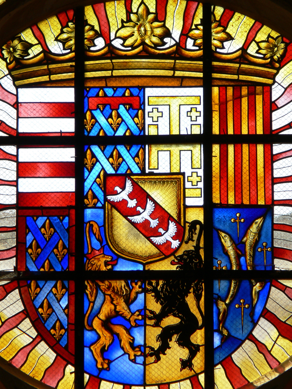 Stained glass window of the coat of arms of Antoine of Lorraine, Coat of arms of House of Lorraine used from 1508 to 1737, , in the church of the Cordeliers in Nancy, Lorraine, France Blazon : Quarterly, I barry of eight gules and argent impaling azure semy-de-lis Or a label gules; II argent a cross potent and four crosslets Or impaling Or four pallets gules; III azure semy-de-lis Or a bordure gules impaling azure a lion sinister rampant Or, armed, langued, and crowned gules (for Guelders); IV Or a lion rampant sable, armed and langued gules (for Jülich) impaling azure crusilly fitchy, two barbels addorsed Or; overall an inescutcheon Or a bend gules three alerions argent.